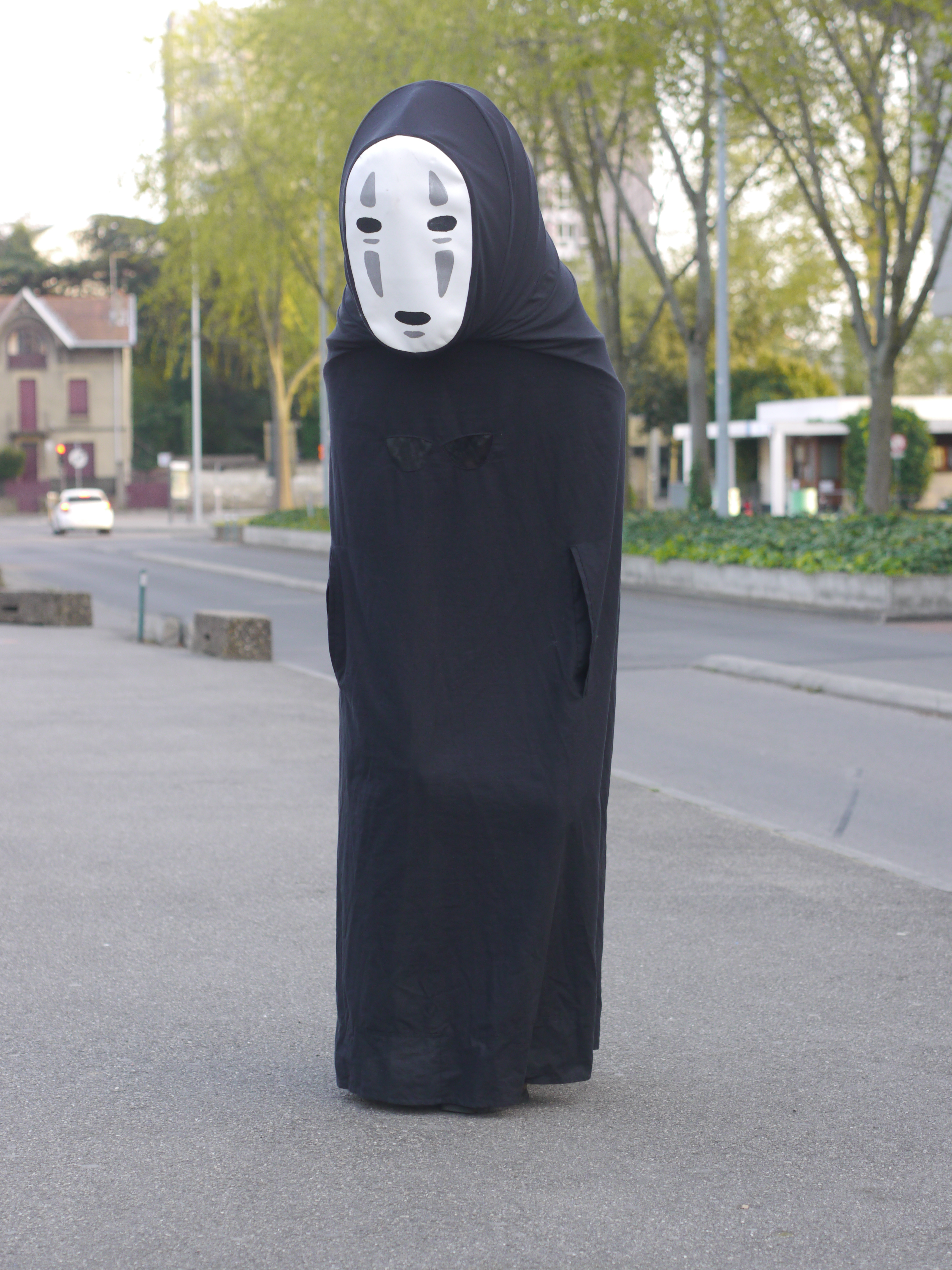 photograph taken during the Made in Asia festival in Brussels in march 2014.